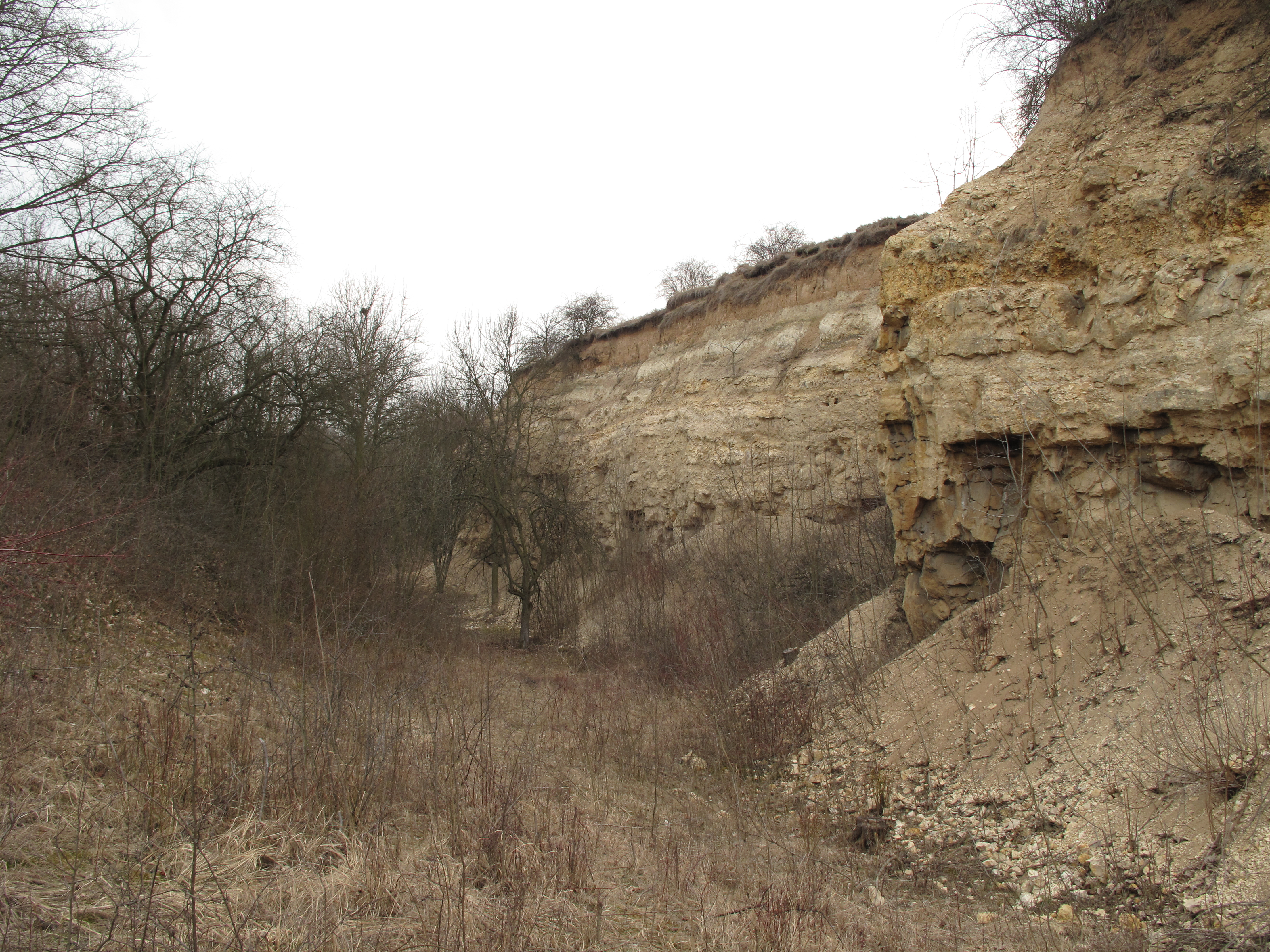 Natural monument "Miocenní sladkovodní vápence" (Miocene freshwater limestones) near Tuchořice village, Louny District, Czech Republic.